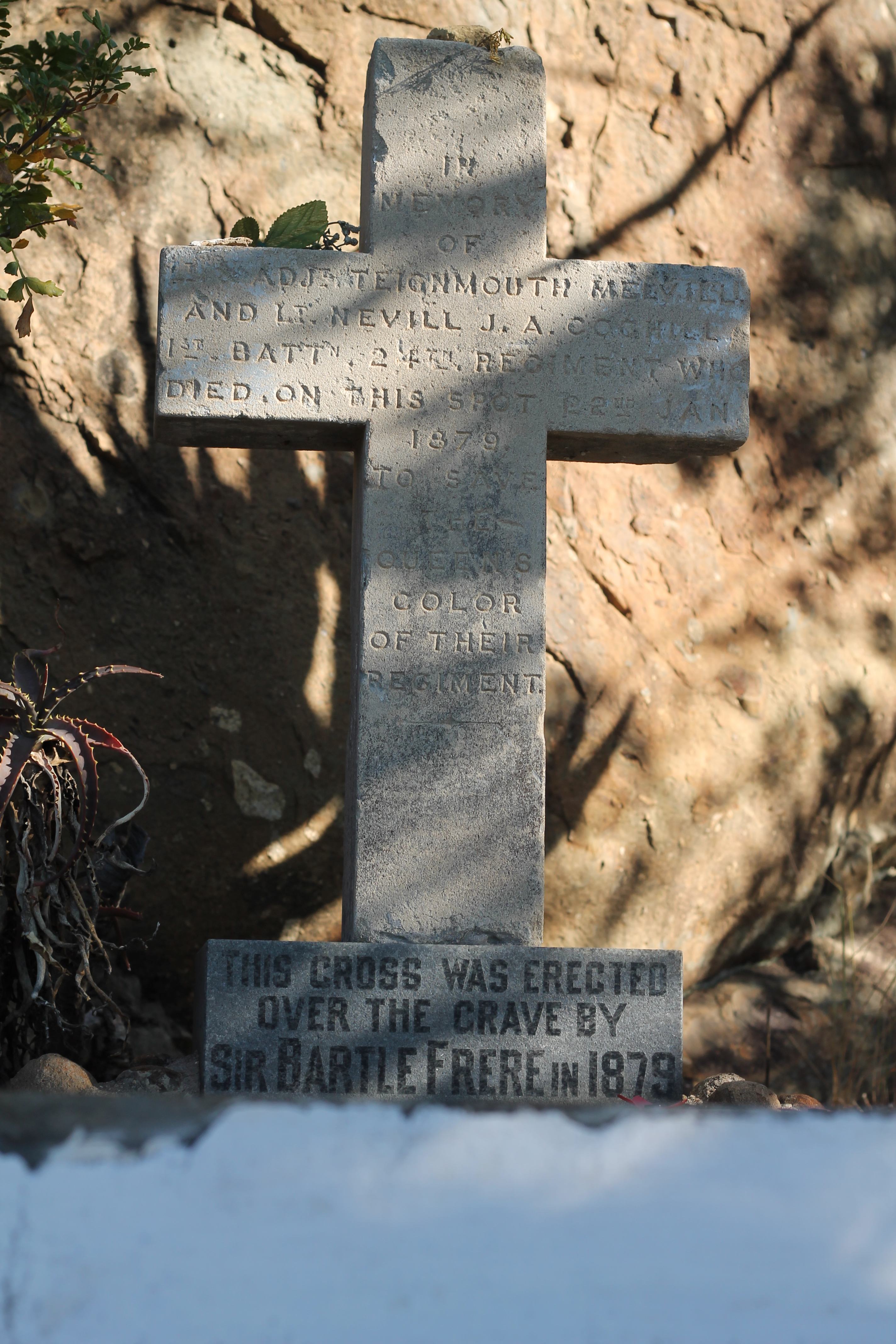 1878 this cross was erected over the "field graves" of fallen comrades, by Sir Bartle Frere. This media shows a South African Protected Site with SAHRA file reference 9/2/434/0001.